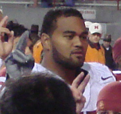 Defensive tackle Fili Moala celebrates a USC victory over Nebraska. He is making the traditional USC Trojan "V" for victory hand sign.